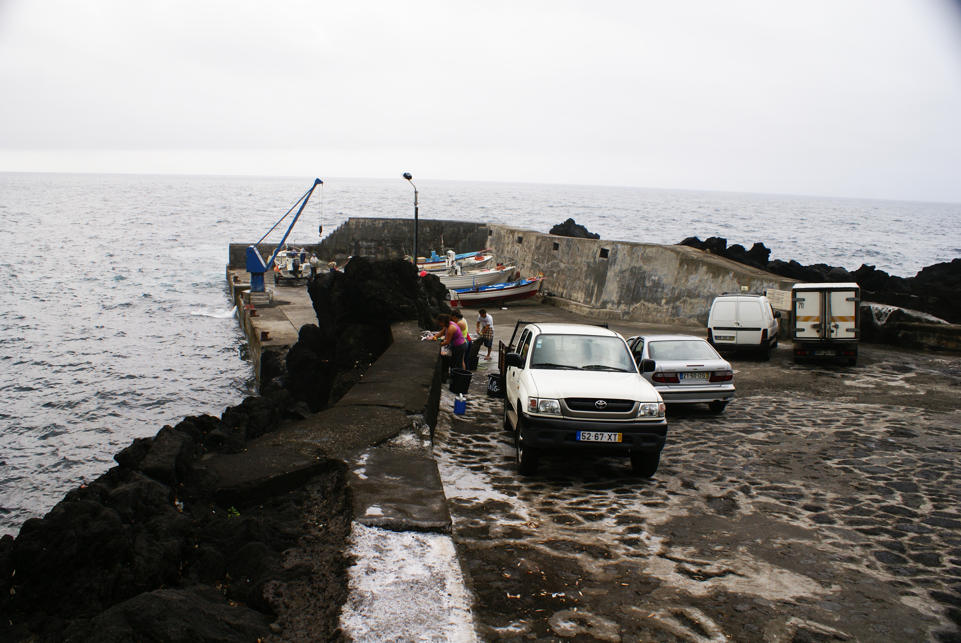 The fishing port of São João, municipality of Lajes do Pico, Pico (Azores), Portugal